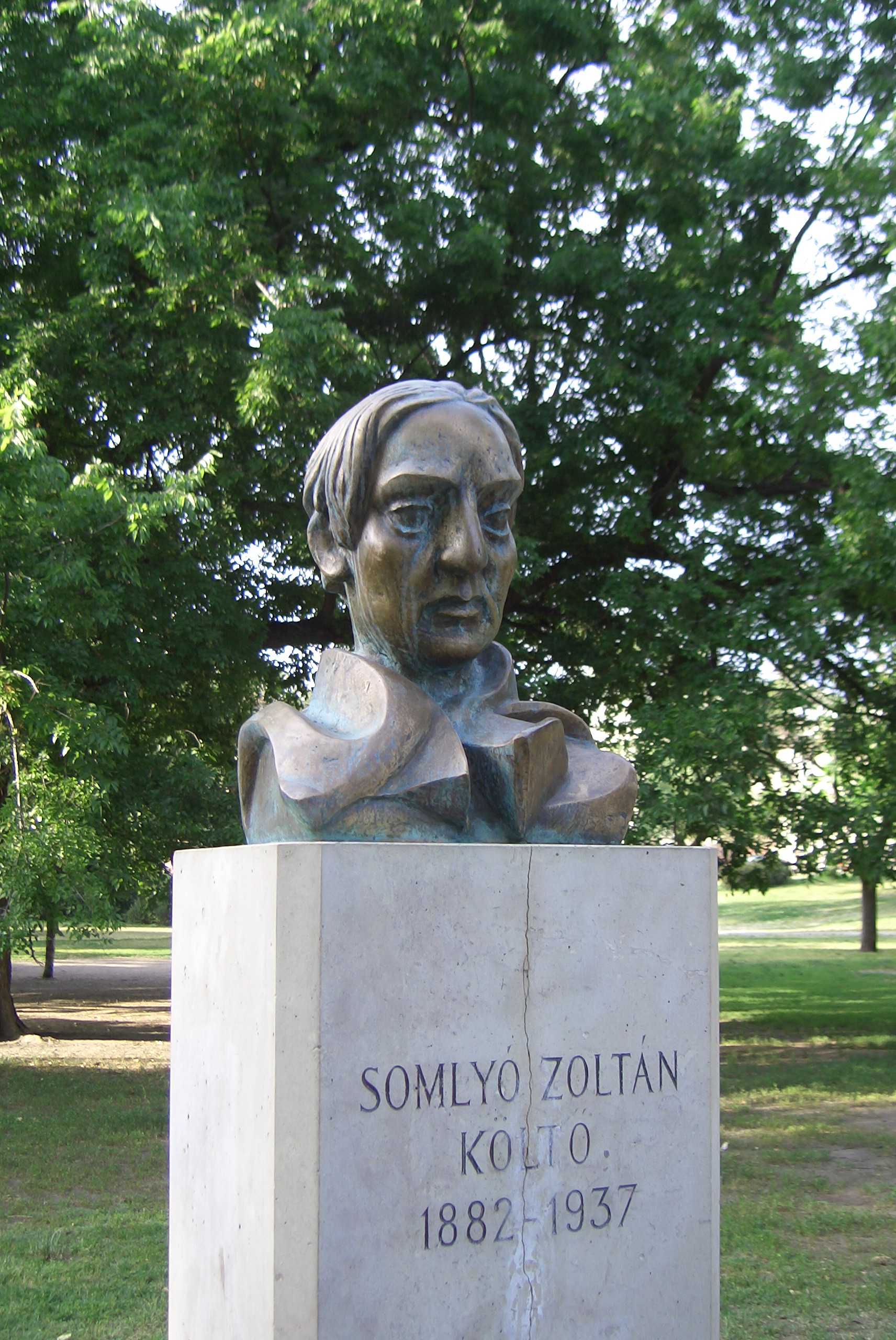 Bust of Zoltán Somlyó, Budapest District XIV, City Park, Lev Tolsztoj Alle